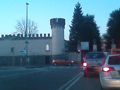 Torneamento Castle in monza